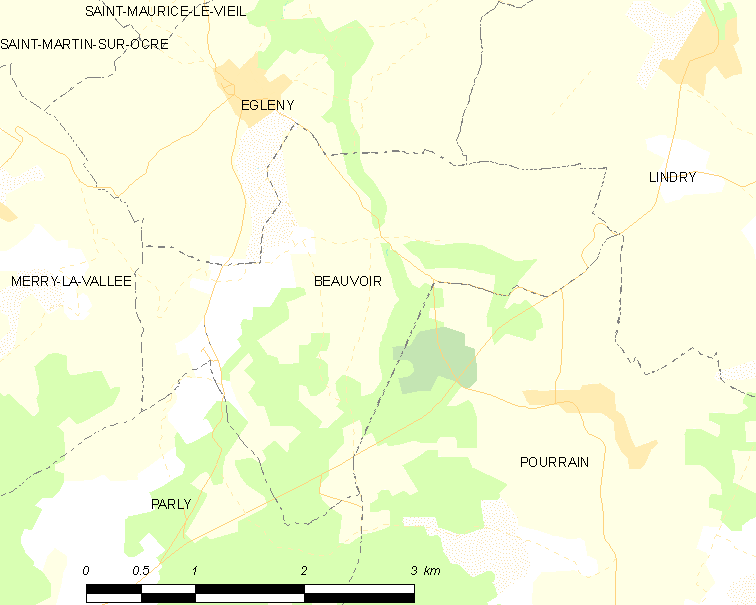 Map of French municipality Beauvoir